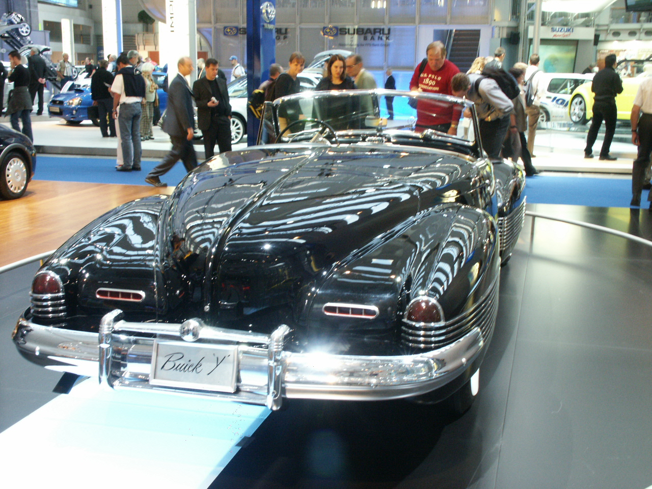 Buick Y-Job (1938) at IAA 2003